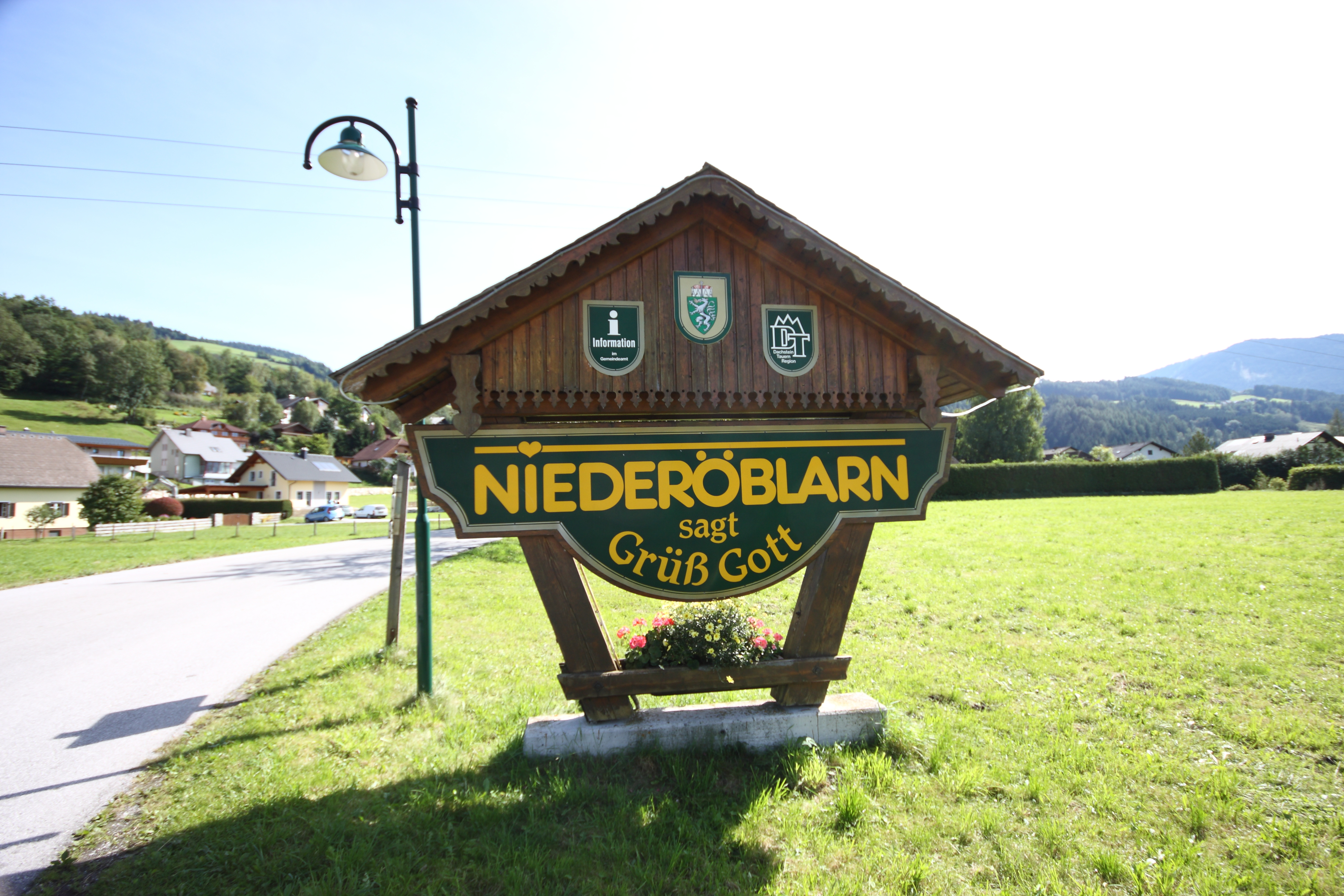 Niederöblarn, Styria, Austria